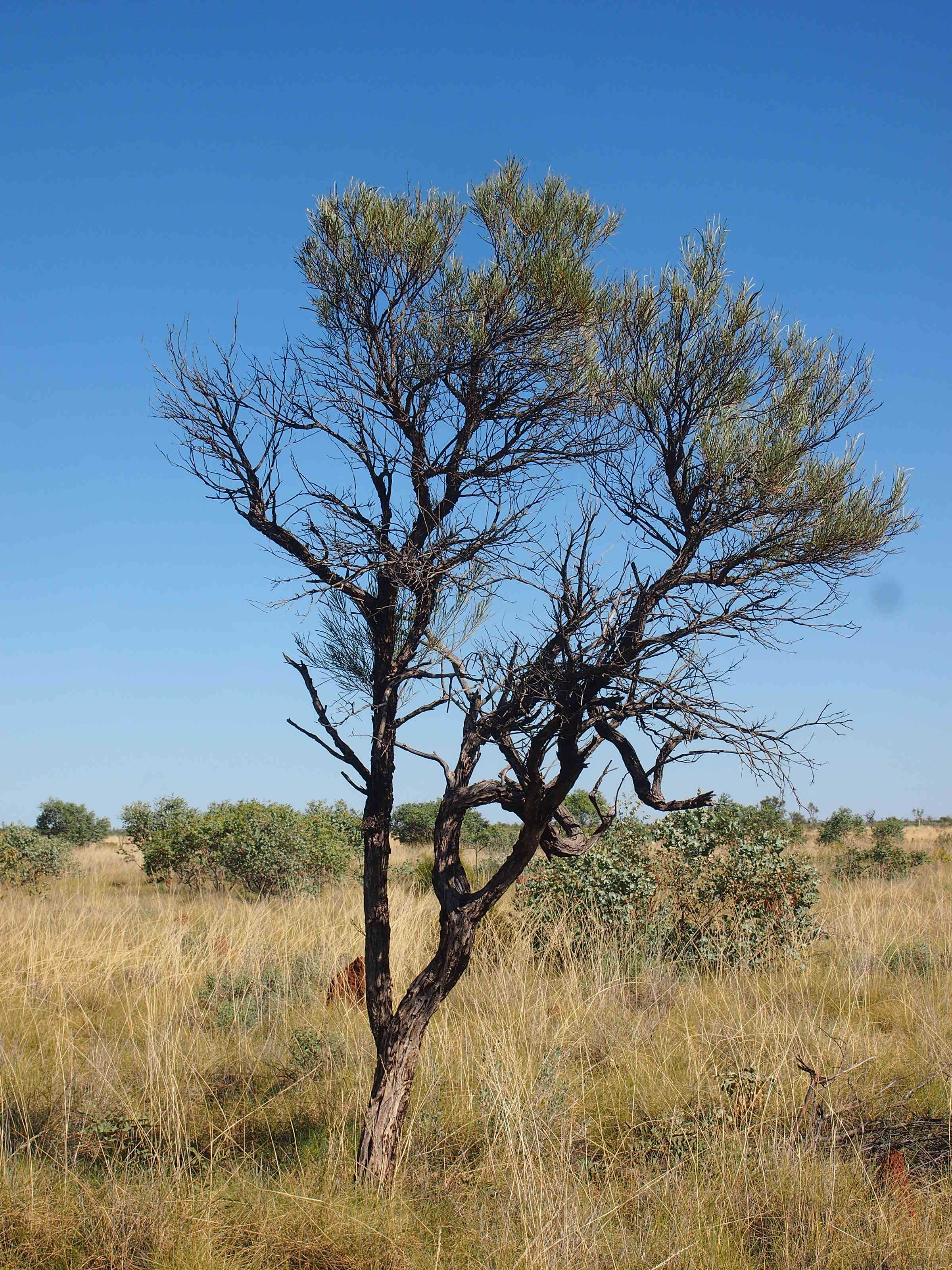 Hakea macrocarpa